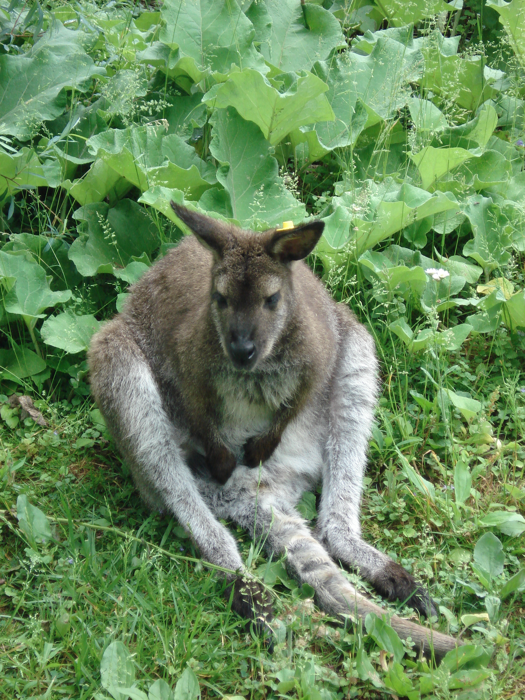 Kangaroos found at the cleveland zoo